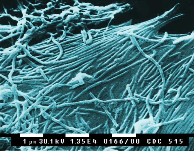 Scanning electron microscopic image of Ebola virions.